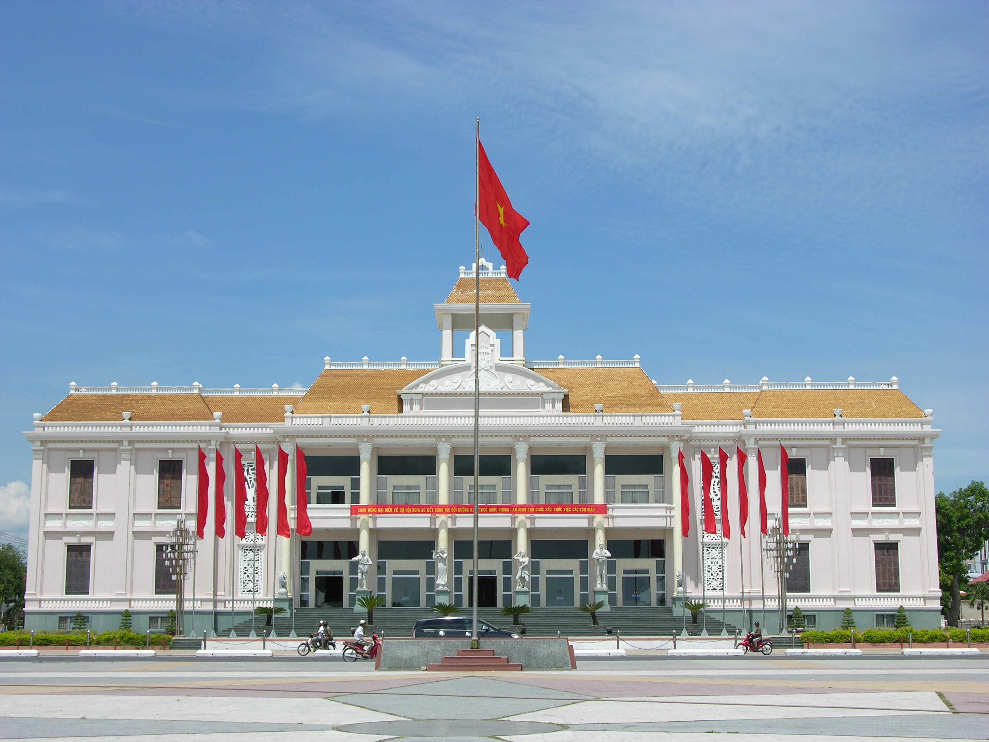 Khanh Hoa Center of Political and Cultural Events, Vietnam